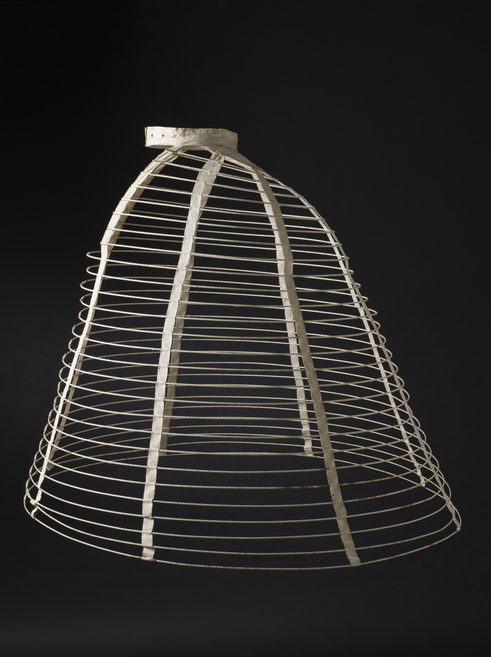 England, circa 1865 Costumes; underwear (lower body) Cotton-braid-covered steel, cotton twill and plain-weave double-cloth tape, cane, and metal Center back length: 36 1/2 in. (92.71 cm); Diameter: 38 1/2 in. (97.79 cm) Purchased with funds provided by Suzanne A. Saperstein and Michael and Ellen Michelson, with additional funding from the Costume Council, the Edgerton Foundation, Gail and Gerald Oppenheimer, Maureen H. Shapiro, Grace Tsao, and Lenore and Richard Wayne (M.2007.211.380) Costume and Textiles